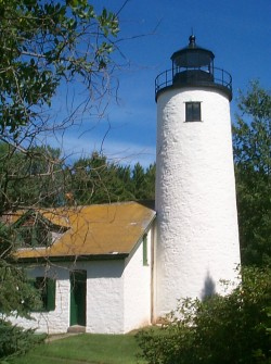 Downloaded from National Park Service - Michigan Island Light Station Caption The Old Tower